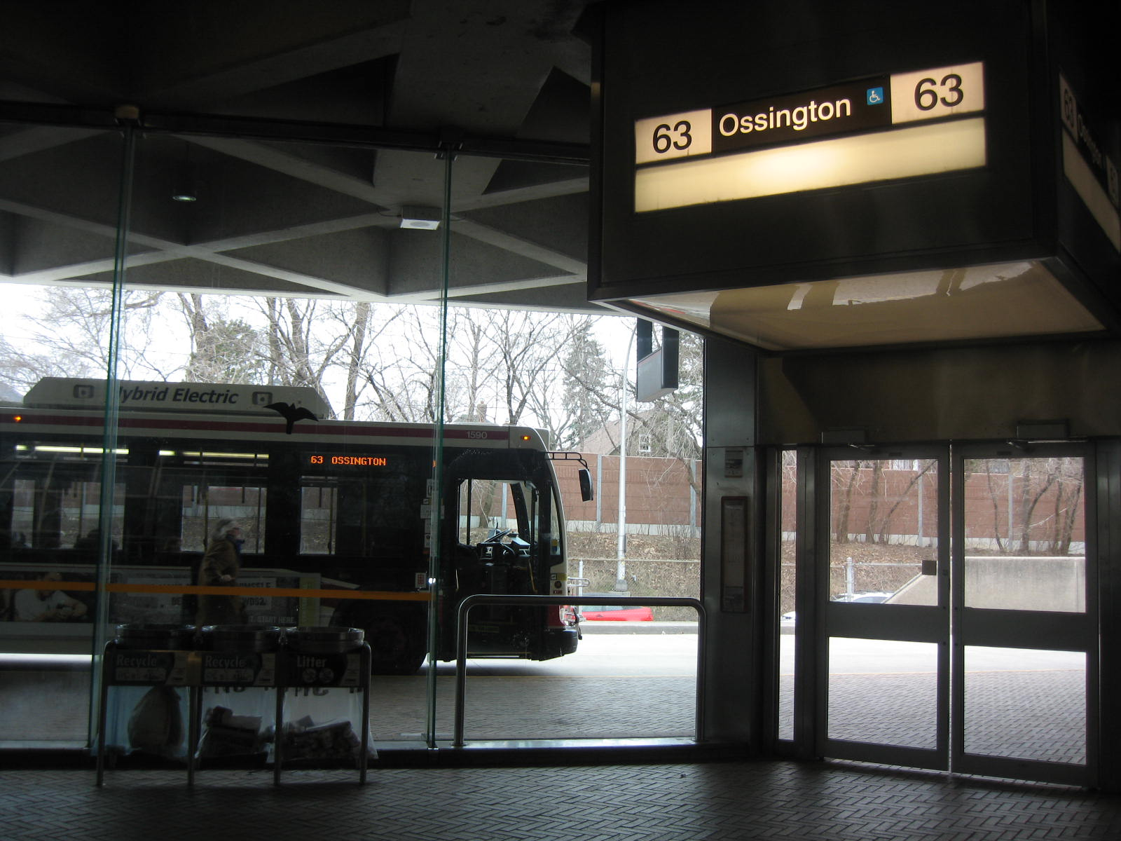 Eglinton West station bus platform